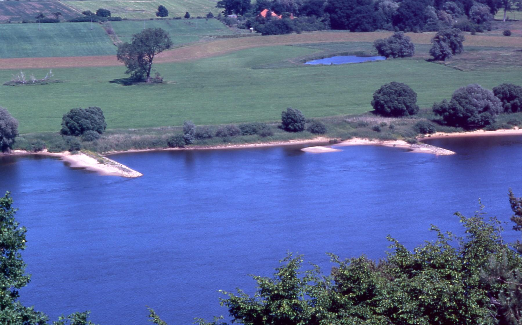 The Elbe at german river kilometre 530 (near Drethem). View to the eastern bank.